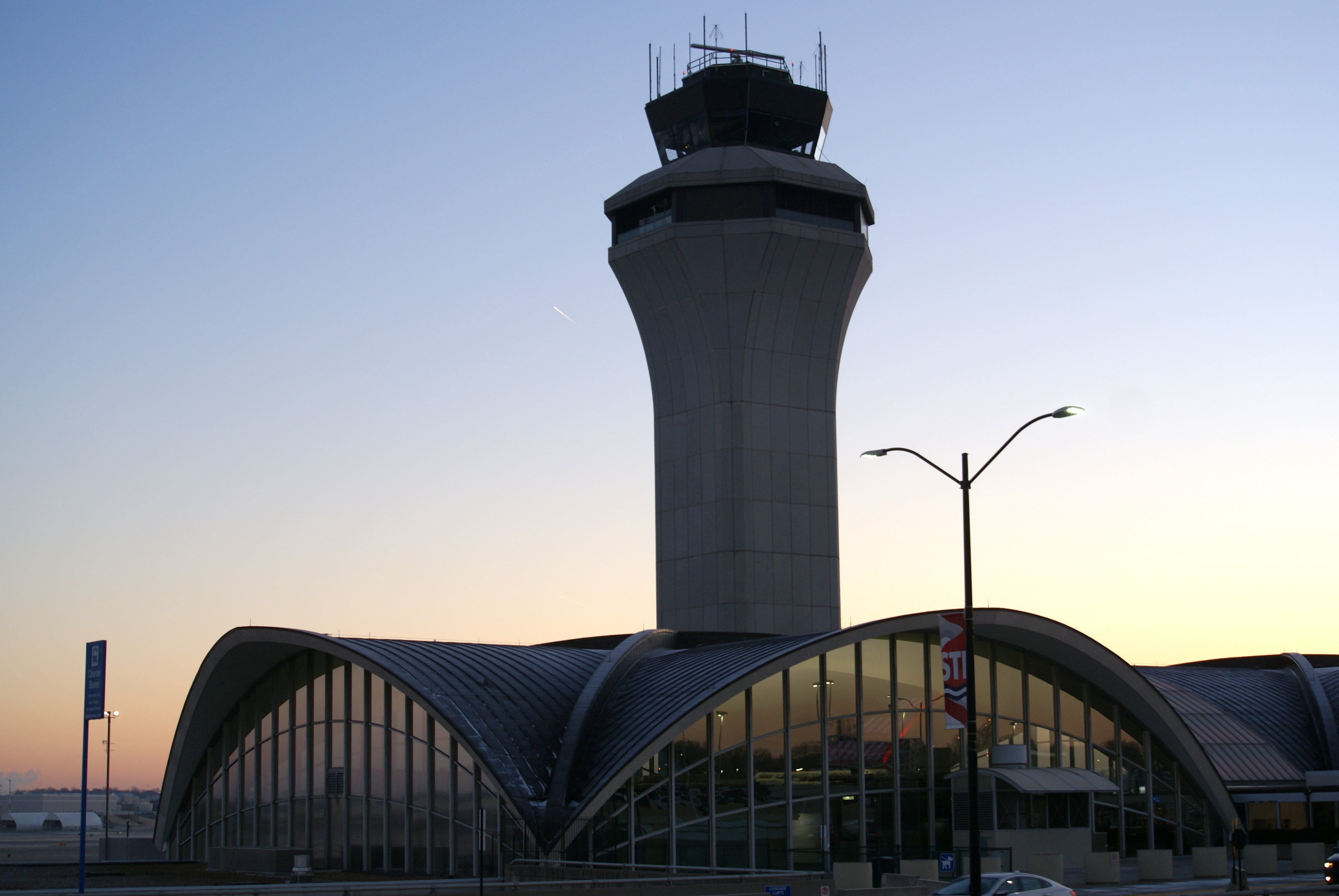 Exterior of westernmost gable at St. Louis Lambert International Airport T1